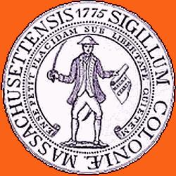 Massachusetts Seal of 1775 with the motto of Algernon Sidney